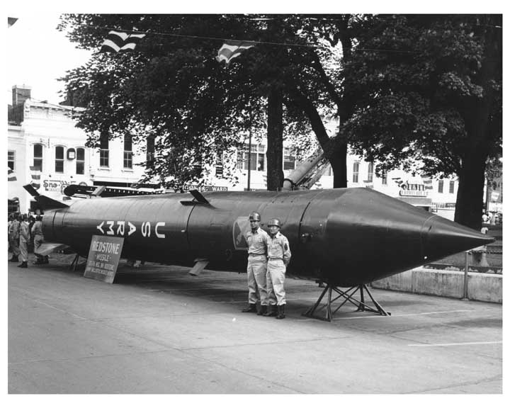 Redstone rocket photograph without description.